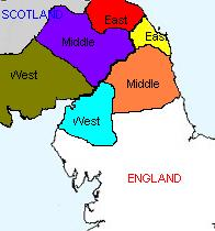 Map of the Scottish Marches